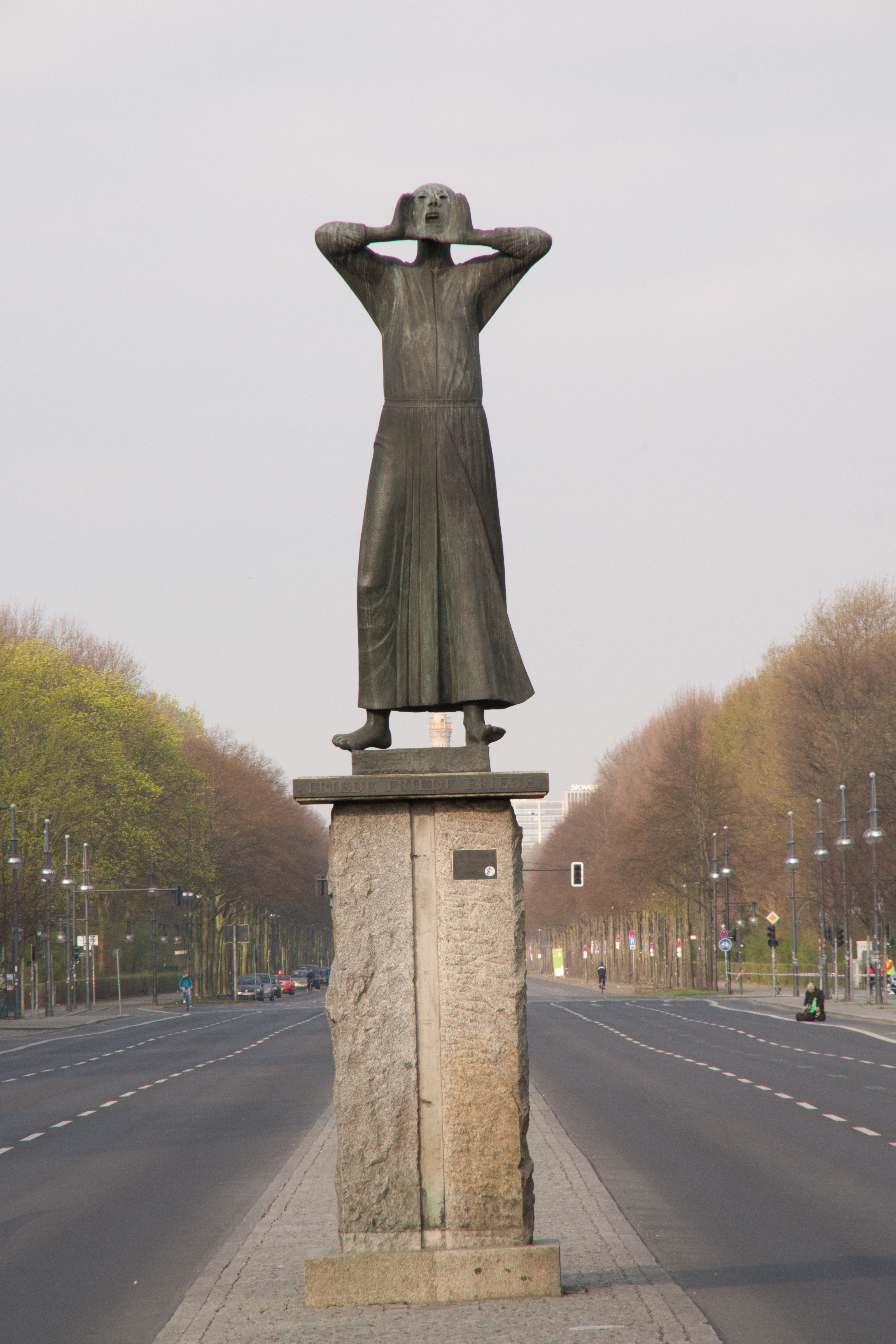 Strasse des 17. Juni with the statue "Der Rufer"; Berlin, Germany